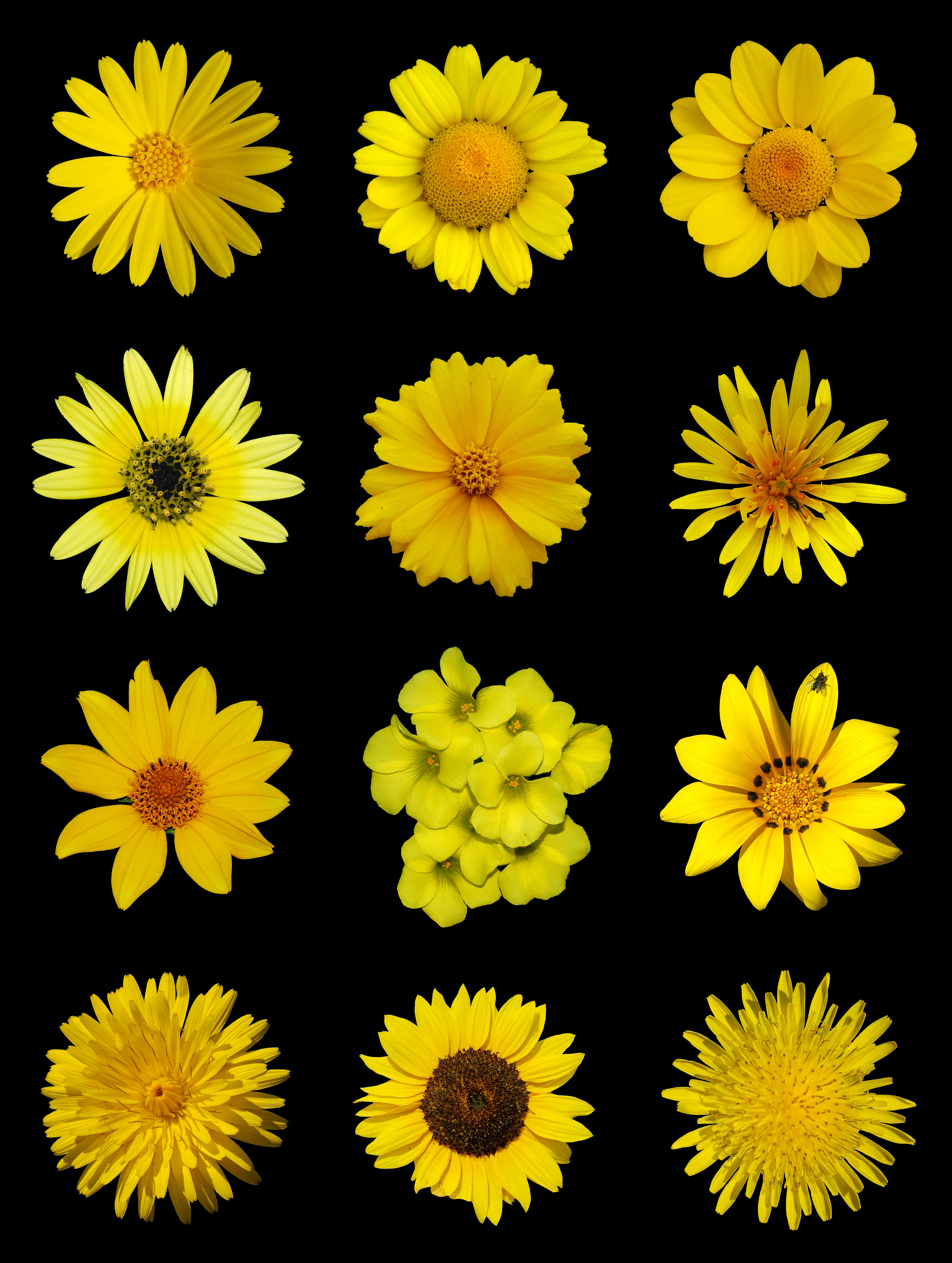 Poster of yellow flowers. From left to right and topo to bottom: Field Marigold (Calendula arvensis) Coleostephus myconis Yellow Chamomile (Cota tinctoria) African Daisy (Arctotis sp.) 'Lance-leaved Coreopsis (Coreopsis lanceolata) Spanish Oyster (Scolymus hispanicum) Smooth oxeye (Helliopsis heliantoides) Bermuda Buttercup (Oxalis pes-caprae) Treasure Flower (Gazania rigens) Common Hawkweed (Hieracium lachenalii) Sunflower (Helianthus annuus) Sow Thistle (Sonchis oleraceus)